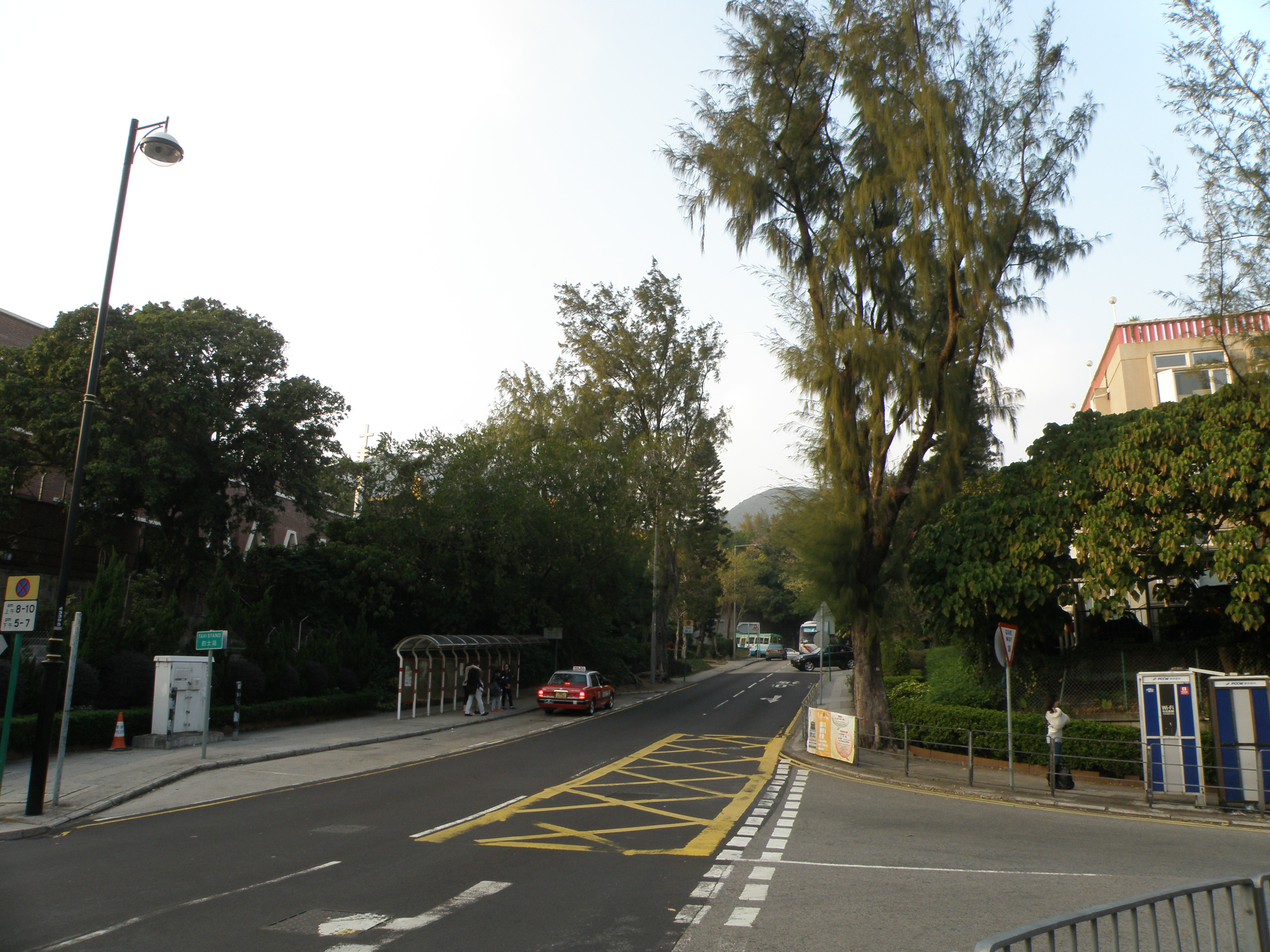 Stanley Village Road in Stanley, Hong Kong.